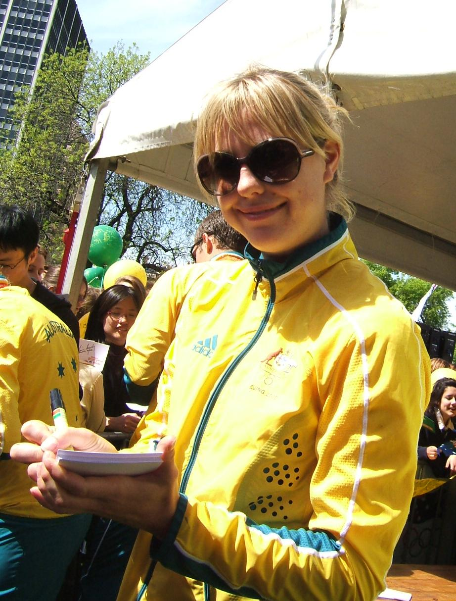 Tessa Parkinson at the 2008 Olympic welcome home parade in Adelaide